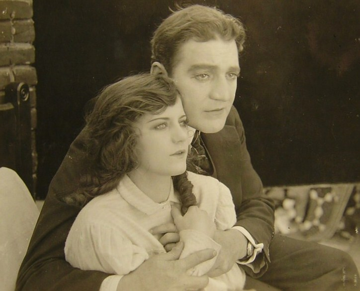 Viola Dana and Clifford Bruce (1885 – 1919) in the film A Weaver of Dreams (1918) - cropped screenshot (original image : see source)